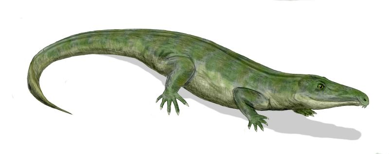 Proterosuchus fergusi, an Archosauromorph from the Early Triassic of South Africa, pencil drawing, digital coloring